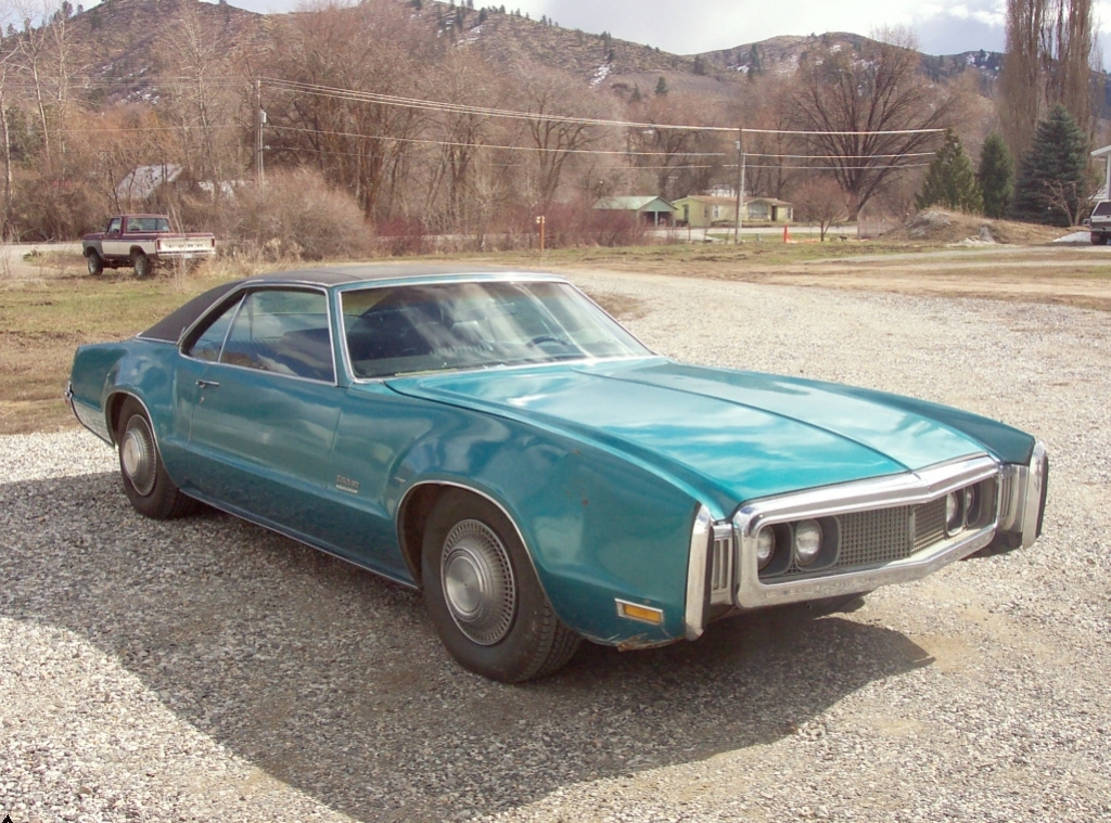 previous count: 235